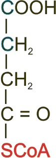 succinyl-CoA formula jpg